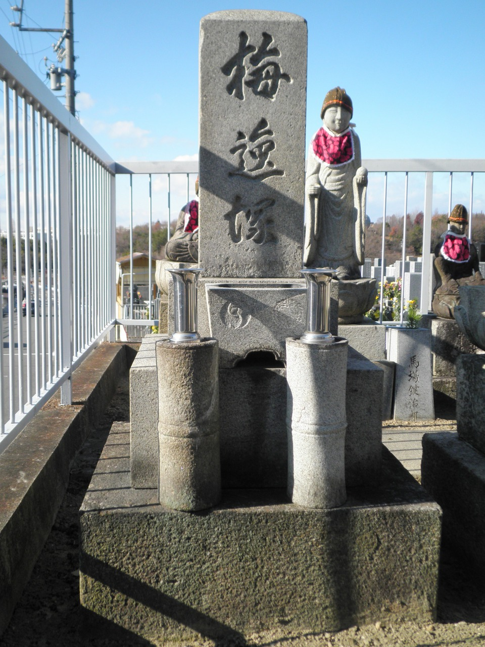 Grave of Yamamoto Baiitsu in Nagoya, Aichi.